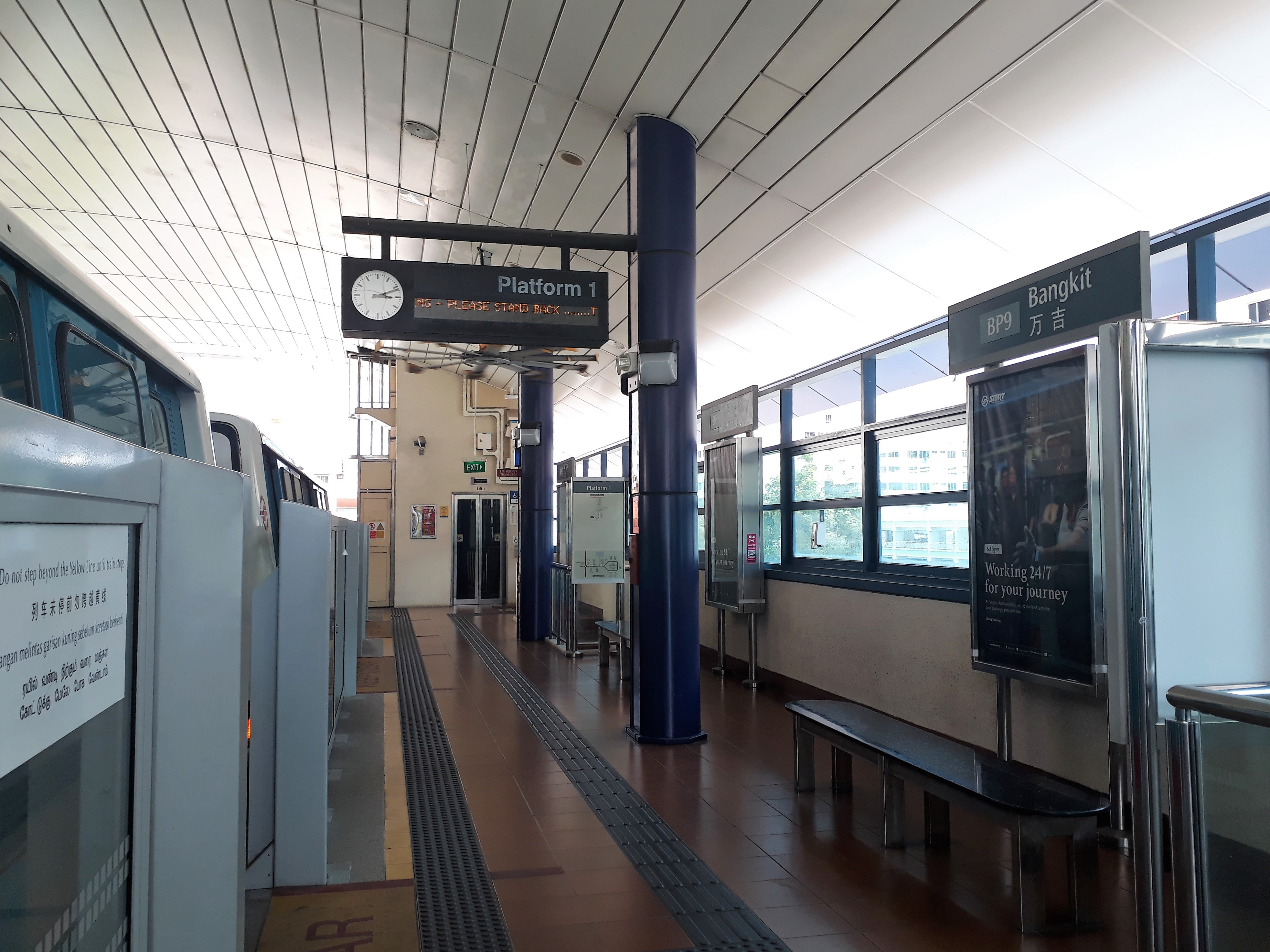 Bangkit LRT Station